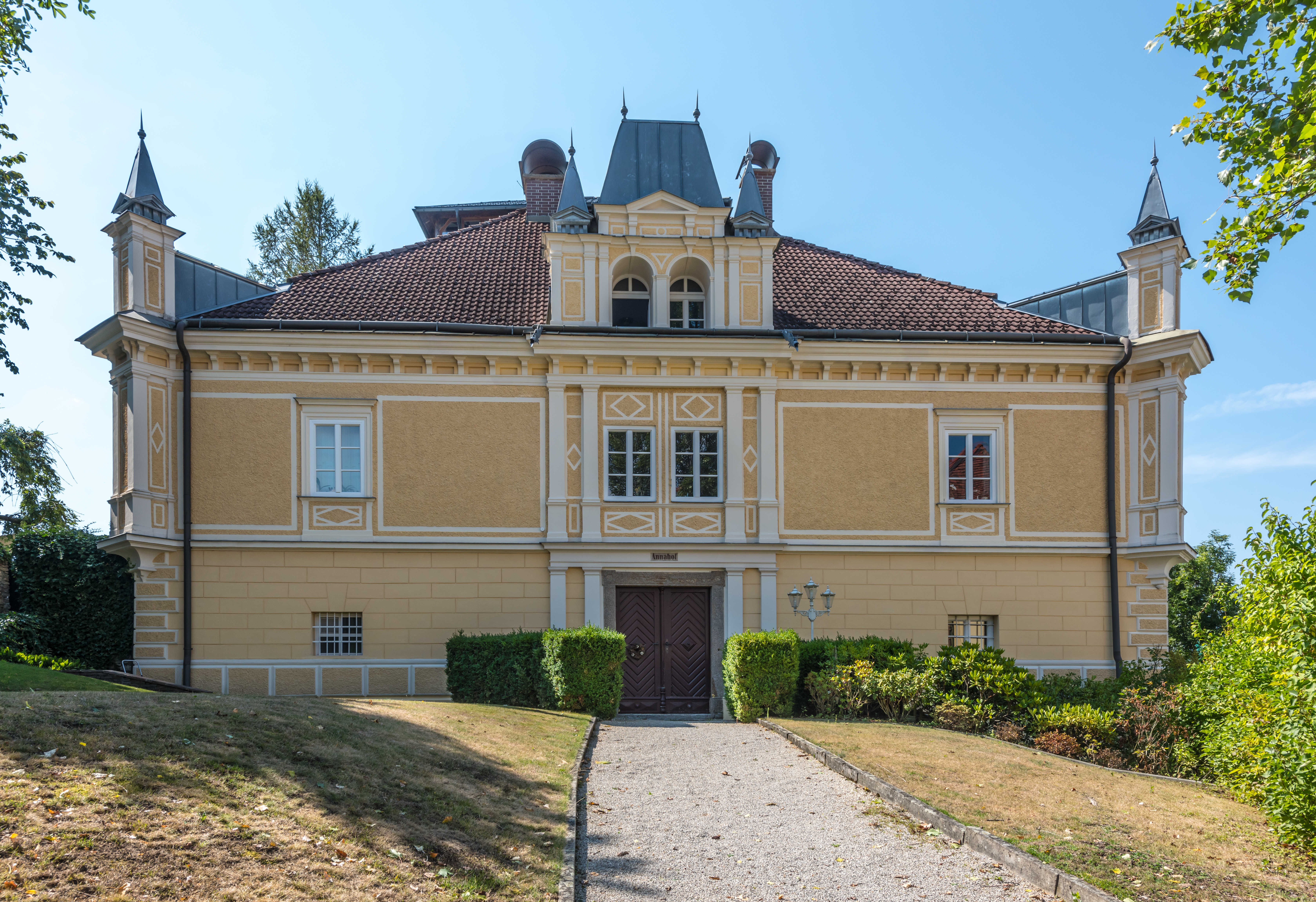 Annahof on Grobeckerplatz #1, municipality Althofen, district Sankt Veit, Carinthia, Austria, EU